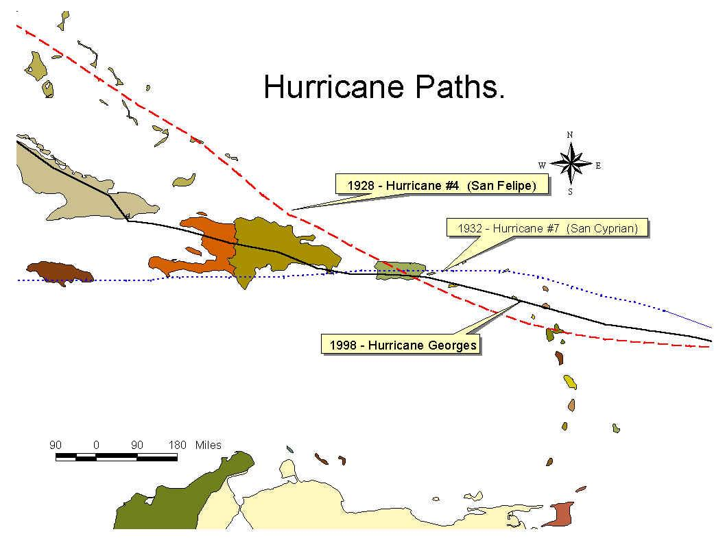 Comparisons of the 1928 hurricane and Hurricane Georges with the 1932 San Caprian Hurricane.